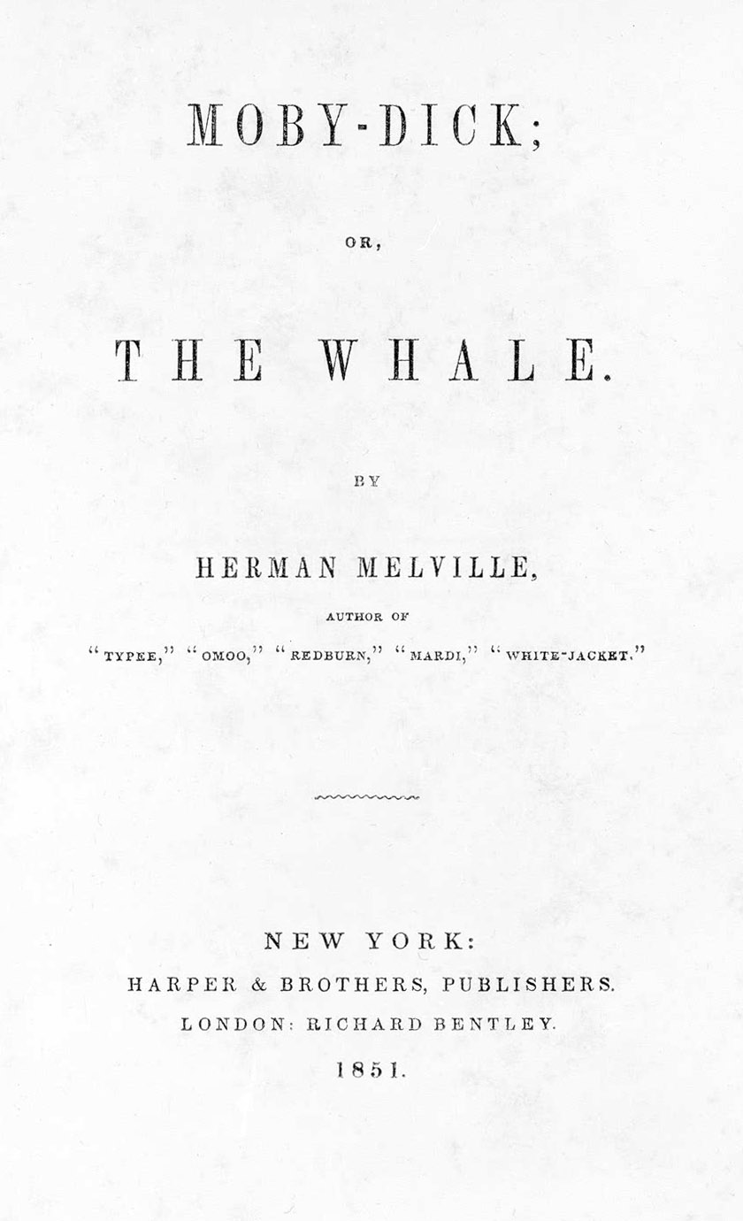 Title page of the first edition of Moby-Dick, 1851. Source: Beinecke Library, Yale University URL